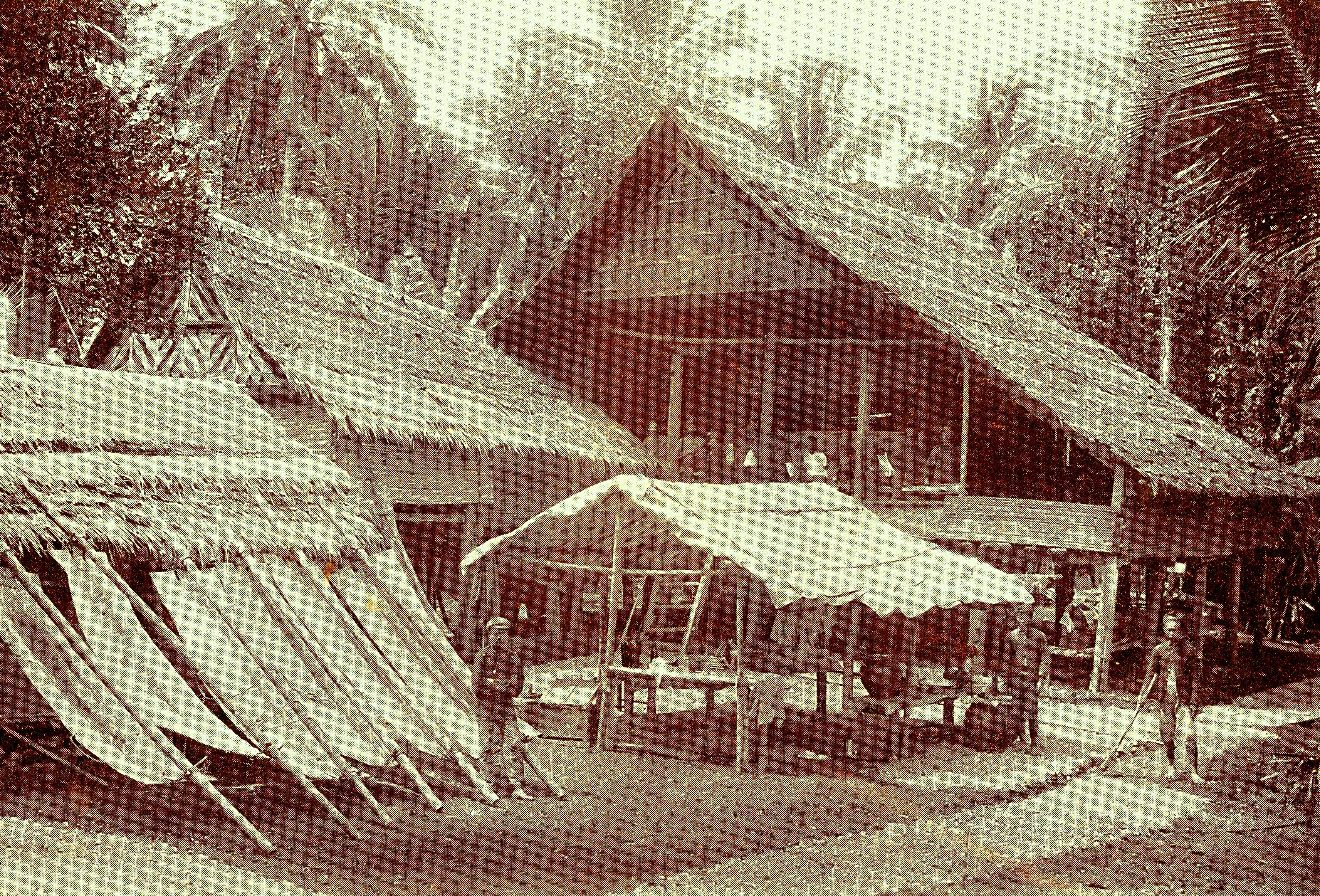 Veldhospitaal te Lawe Sagoe